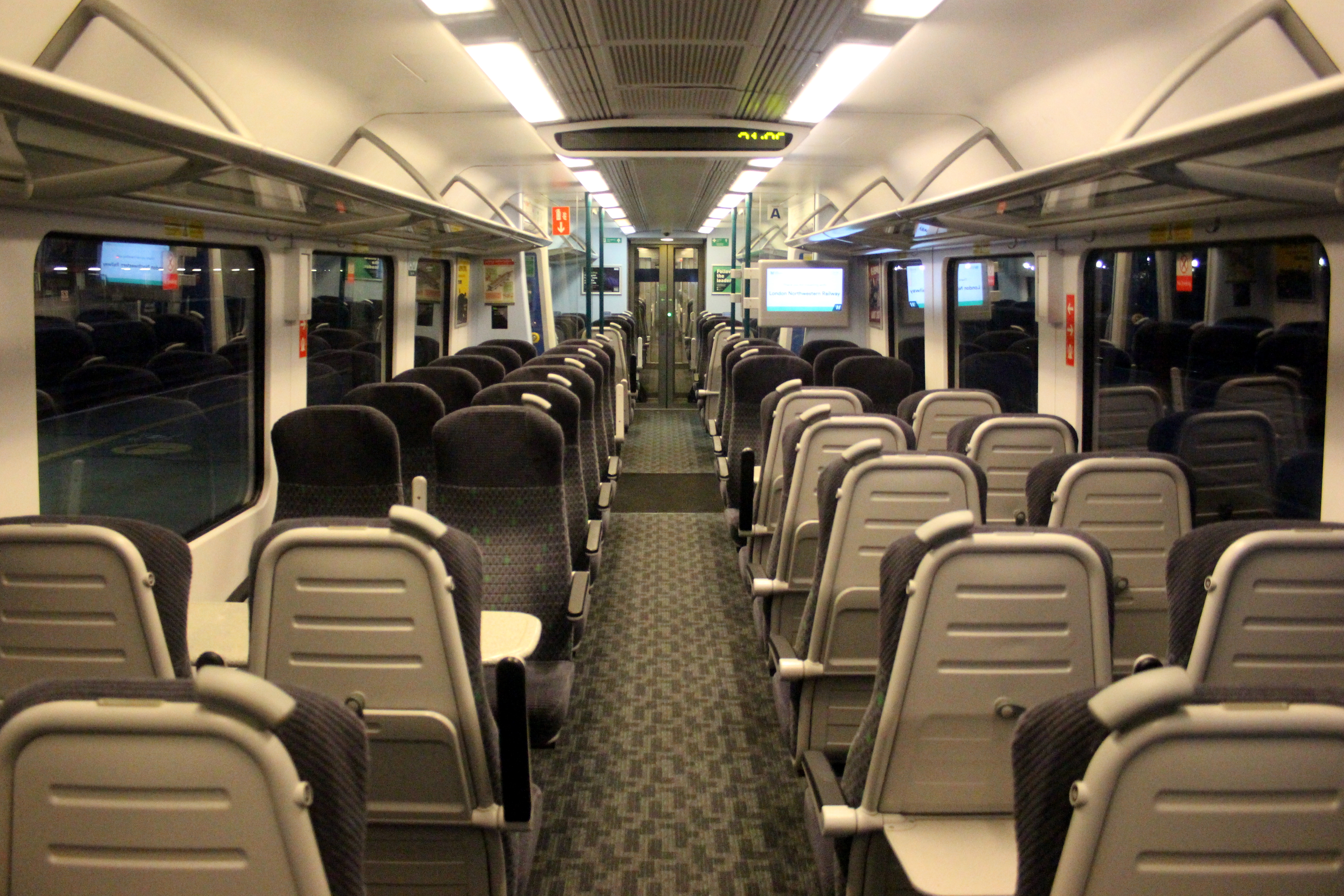 The recently refurbished interior of a WMT Class 350/1 in Standard Class. This unit will typically operate routes branded as London Northwestern Railway, such as London to Birmingham/Crewe/Liverpool.